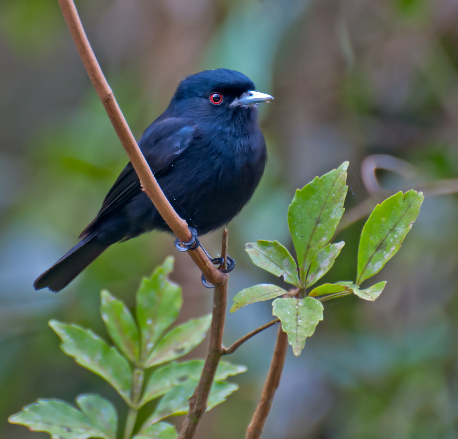 A male Blue-billed Black-tyrant in Reserva Guainumbi, São Luis do Paraitinga, São Paulo, Brazil.